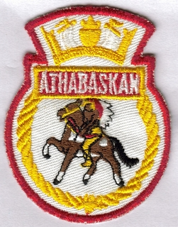 HMCS Athabaskan (282) crest, scanned by me.